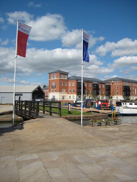 Diglis Basin Diglis Basin is currentky undergoing redevelopment, it is being converted in the a residential area by Taylor Wimpey.